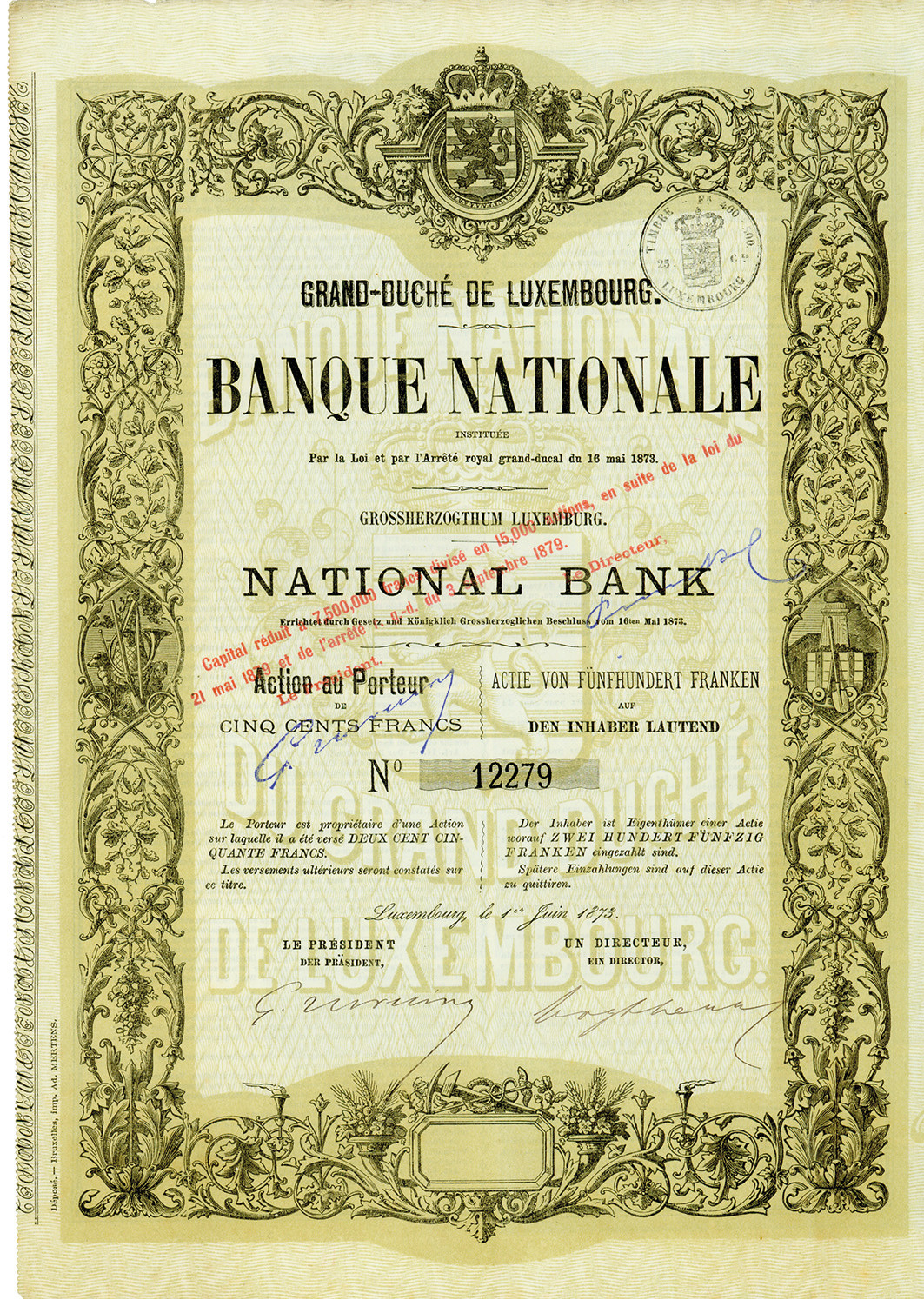 Share of the National Bank Grossherzogthum Luxembourg, issued 1. June 1873